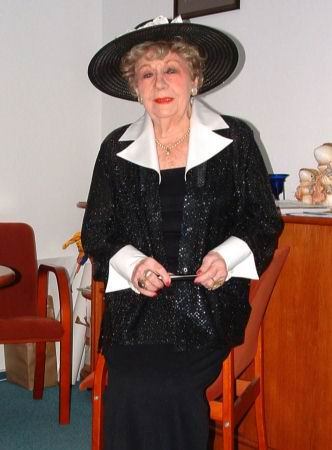 This image has been copied from the source with the permision of webmaster (and with the consent of the director of the service). The permission was granted to Stan Zurek (Zureks) via email from Mirosław Domański Hanka Bielicka